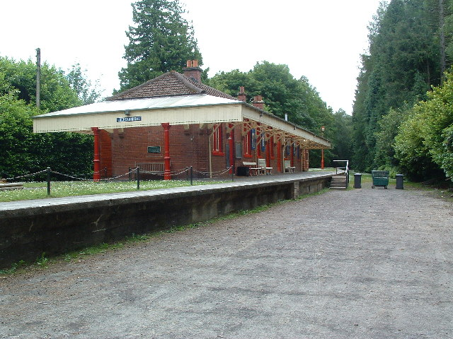 Lochearnhead Station. Although trains stopped running through this station many years ago it has been preserved and is now an outward bounds centre for Scouts